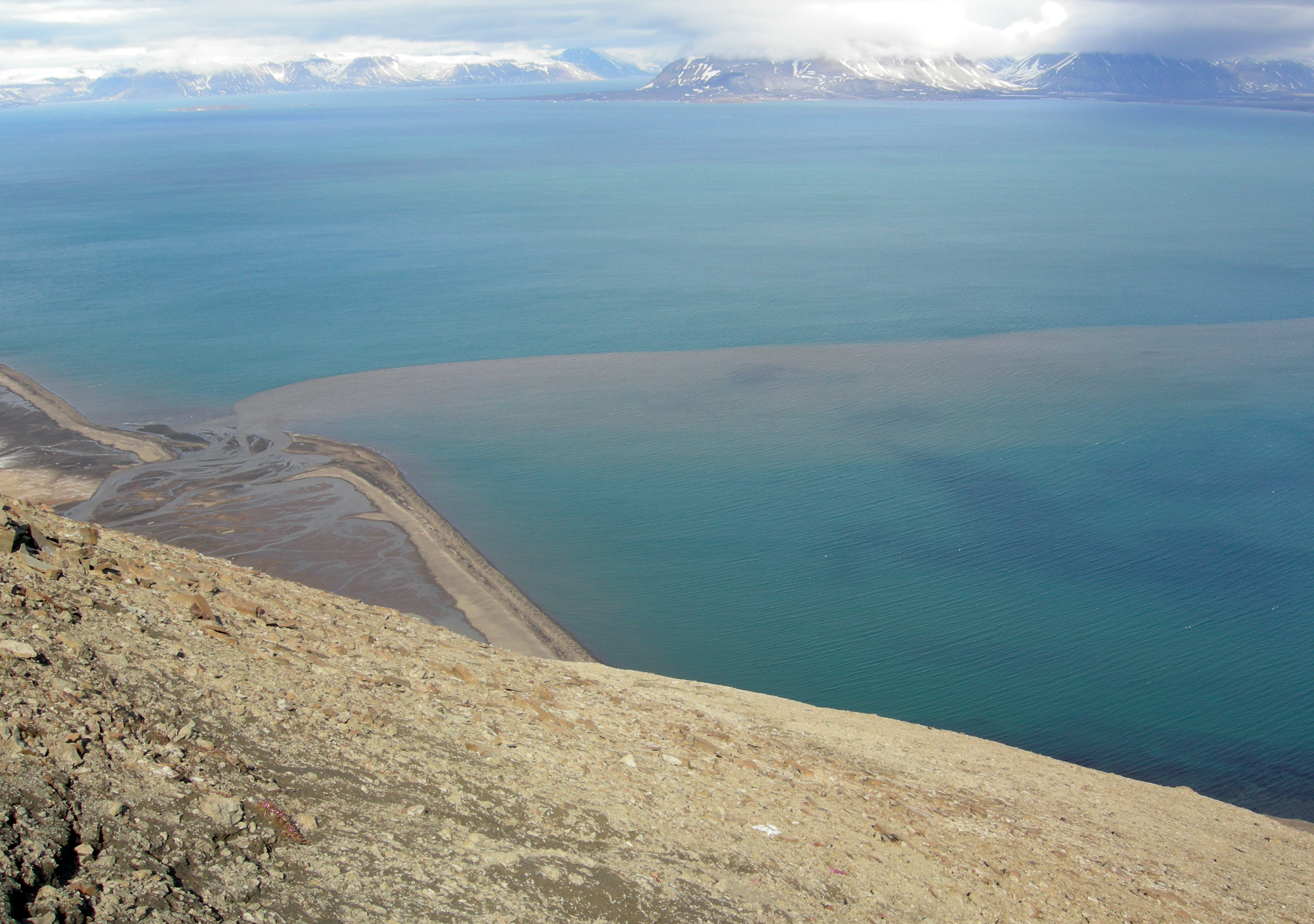 Sediment plume from DeGeerdalen, south shore of Isfjorden, Svalbard, Norway.